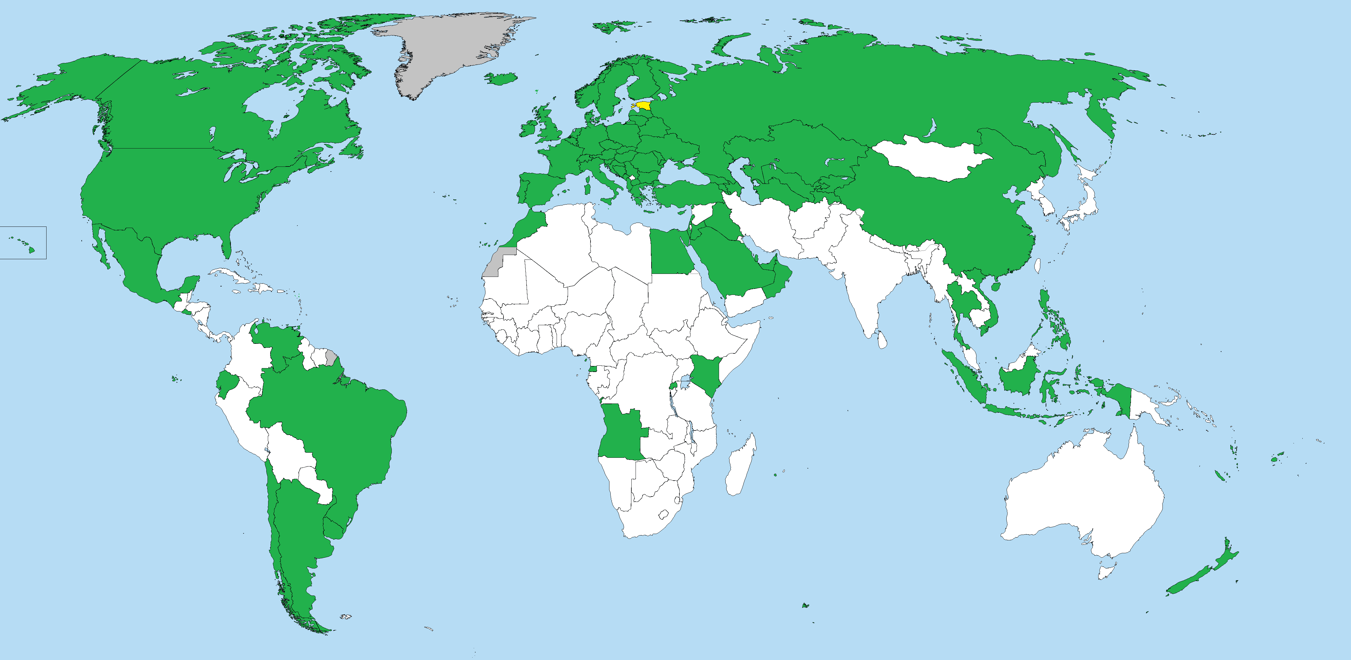 Estonia national football team opponents using basic colours in Paint.